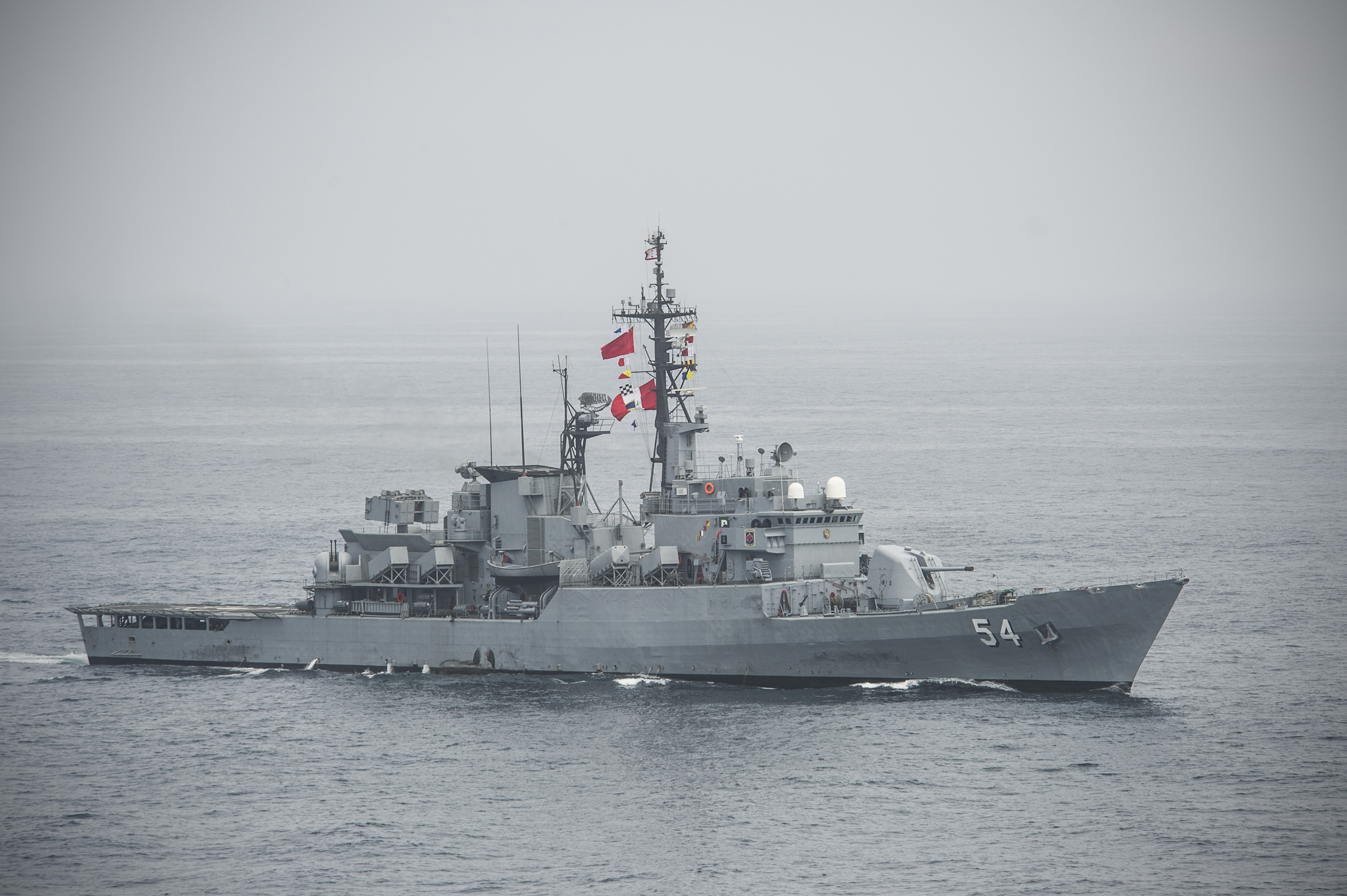 Peruvian navy frigate BAP Mariategui (FM 54), along with six other Peruvian navy ships, sails alongside future amphibious assault ship USS America (LHA 6) during a passing exercise (PASSEX). America is currently traveling through the U.S. Southern Command and U.S. 4th Fleet area of responsibility on its maiden transit, “America Visits the Americas”. America is the first ship of its class, replacing the Tarawa-class of amphibious assault ships. As the next generation “big-deck” amphibious assault ship, America is optimized for aviation, capable of supporting current and future aircraft such as the MV-22 Osprey and F-35B Joint Strike Fighter. The ship is scheduled to be ceremoniously commissioned Oct. 11 in San Francisco. (U.S. Navy photo by Mass Communication Specialist 1st Class Demetrius Kennon/Released)